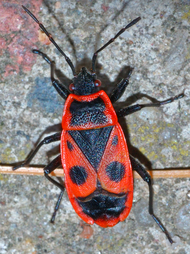 This image shows a 10 mm large firebug of the species Pyrrhocoris apterus.